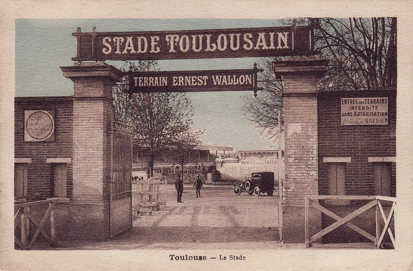 Carte postale de l'entrée du stade Ernest Wallon en 1920 Postcard from the 1920s showing the entrance of "Ernest Wallon" stadium